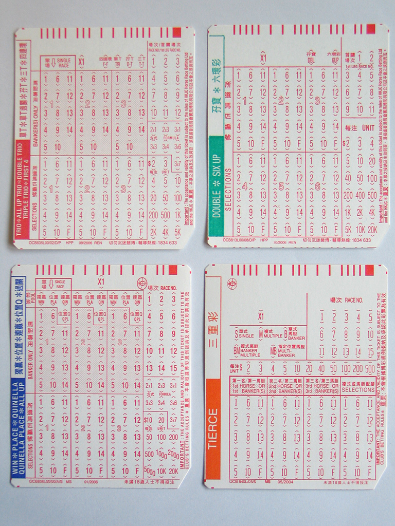 Betting tickets of Hong Kong Jockey Club